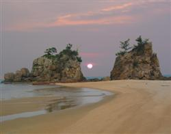 Rocks at Kemasik Beach (Pantai Kemasik), (or Kemasek)